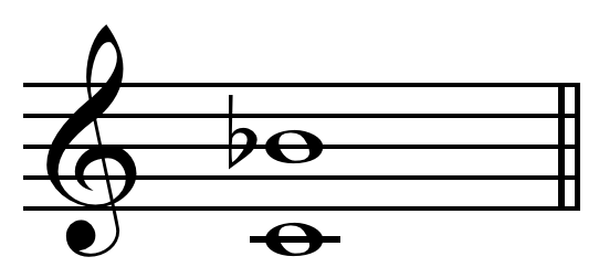 Minor seventh on C. 1000 cents. Created by Hyacinth (talk) 06:29, 7 December 2010 using Sibelius 5.